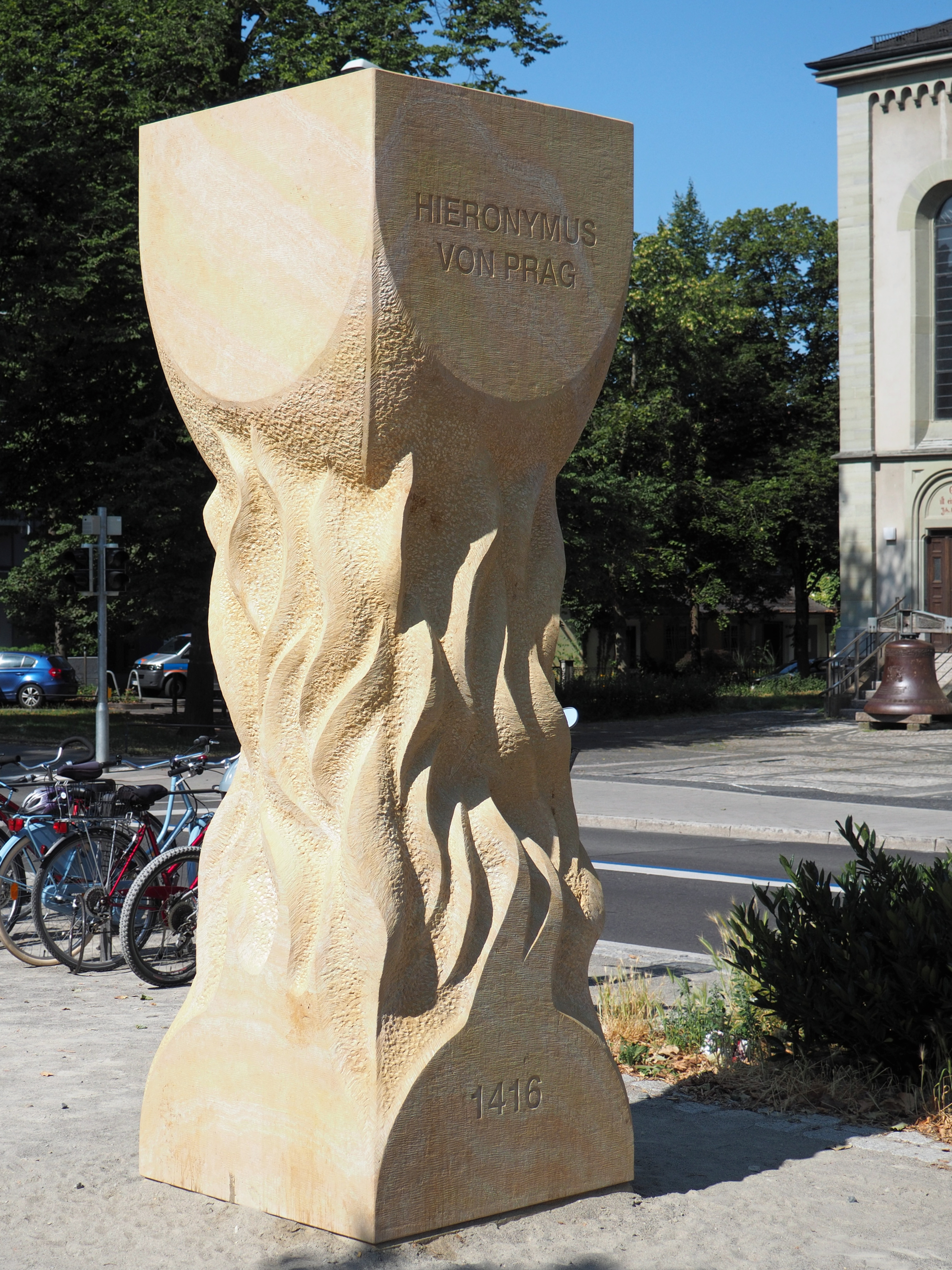 Monument Jan Hus - path of reconciliation, for the Bohemian reformer Jan Hus and his a friend and fellow Jerome of Prague in Konstanz. The monument by the Czech sculptor Adéla Kačabová from Hořice has the shape of a chalice in flames and stands in front of the Lutherkirche. The church stands on the way connecting Konstanz Cathedral (where on July 6, 1415, the death sentence on Jan Hus was spoken) with the place Jan Hus was burned at the stake. The monument was solemnly unveiled on July 6, 2015, the 600th date of death of Jan Hus.